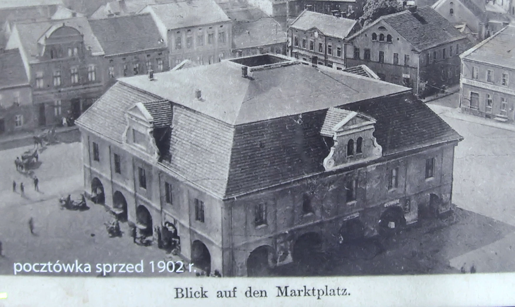 Jarocin, Poland